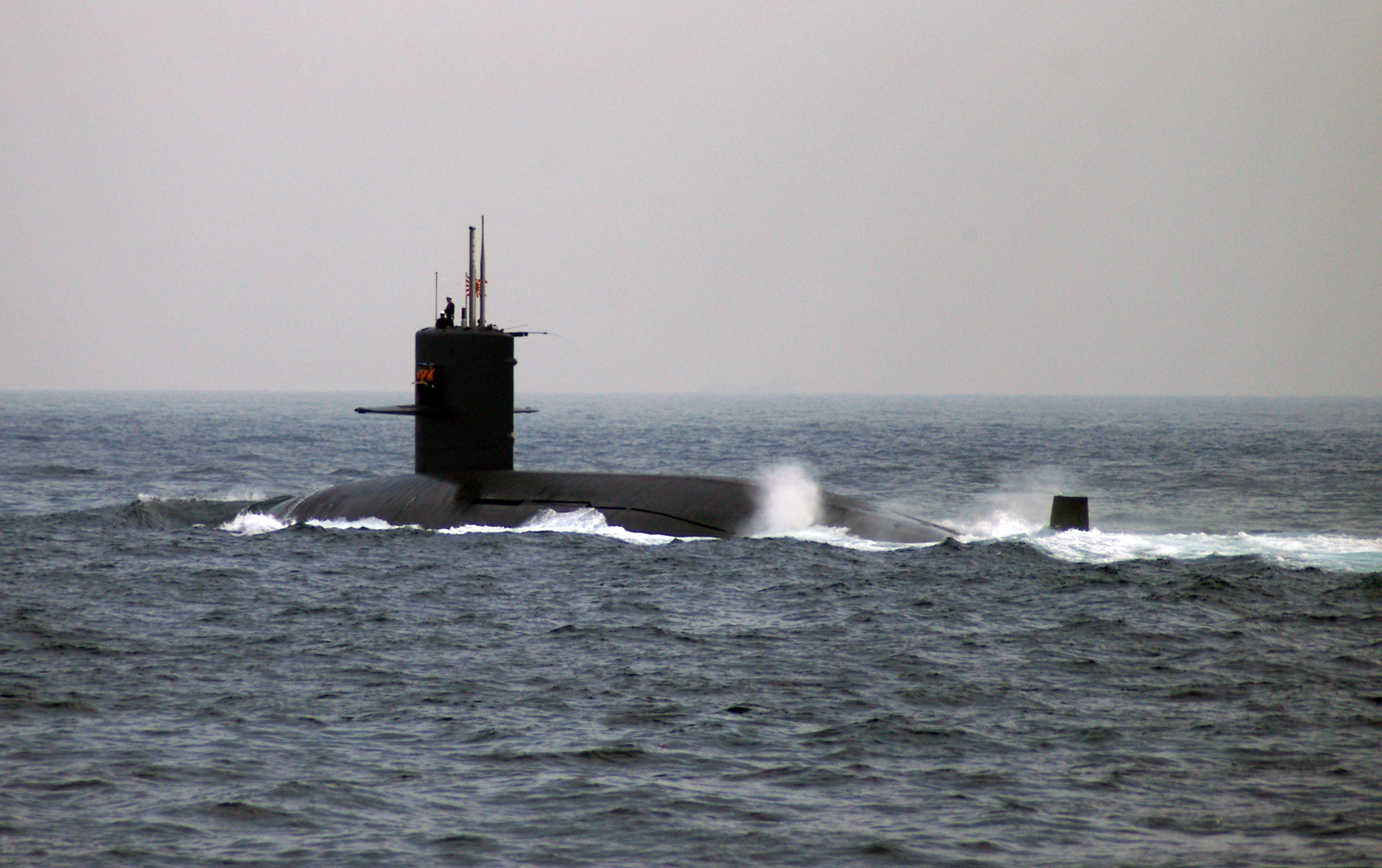 JS Yukishio (TSS-3605) at SDF Fleet Review 2006.